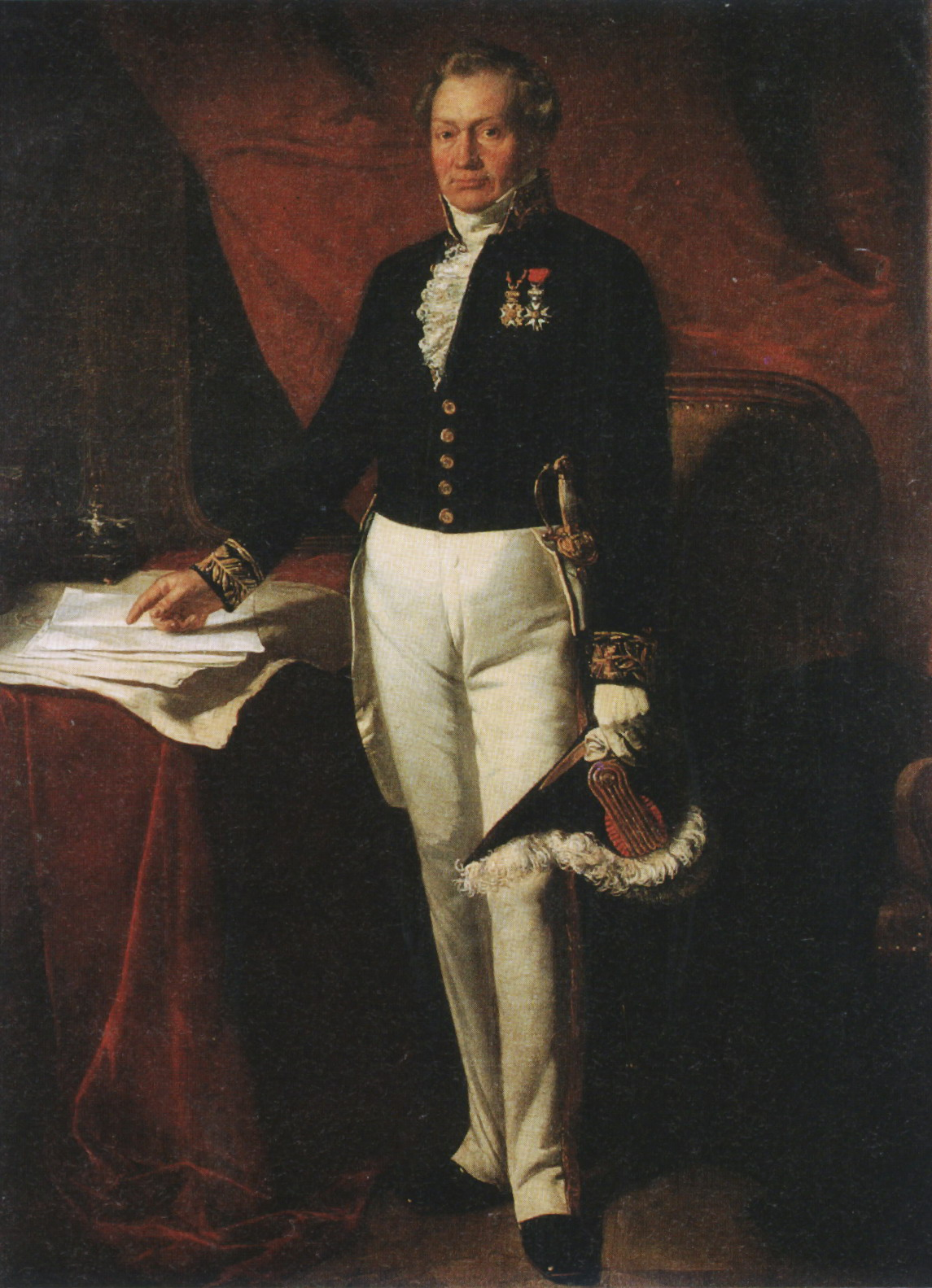 Petrus Regout (1801-1878), Dutch industrialist and founder of Maastricht potteries (Sphinx). Here in his uniform as a member of the first chamber of Dutch Parliament (1849-1859). Portrait by unknown painter, c 1850.